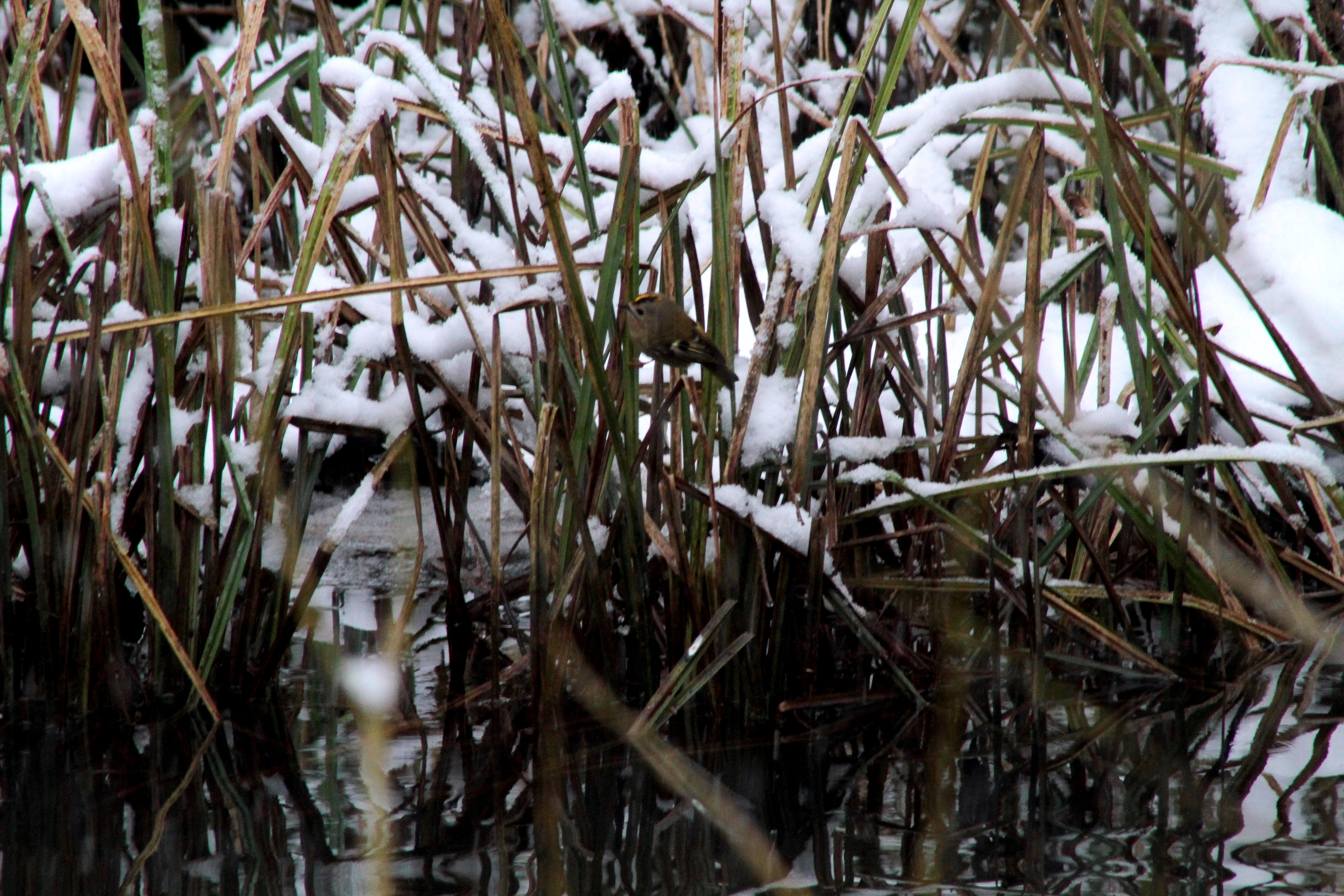 Photographer: Helmuts Meskonis Camera: Canon 7D